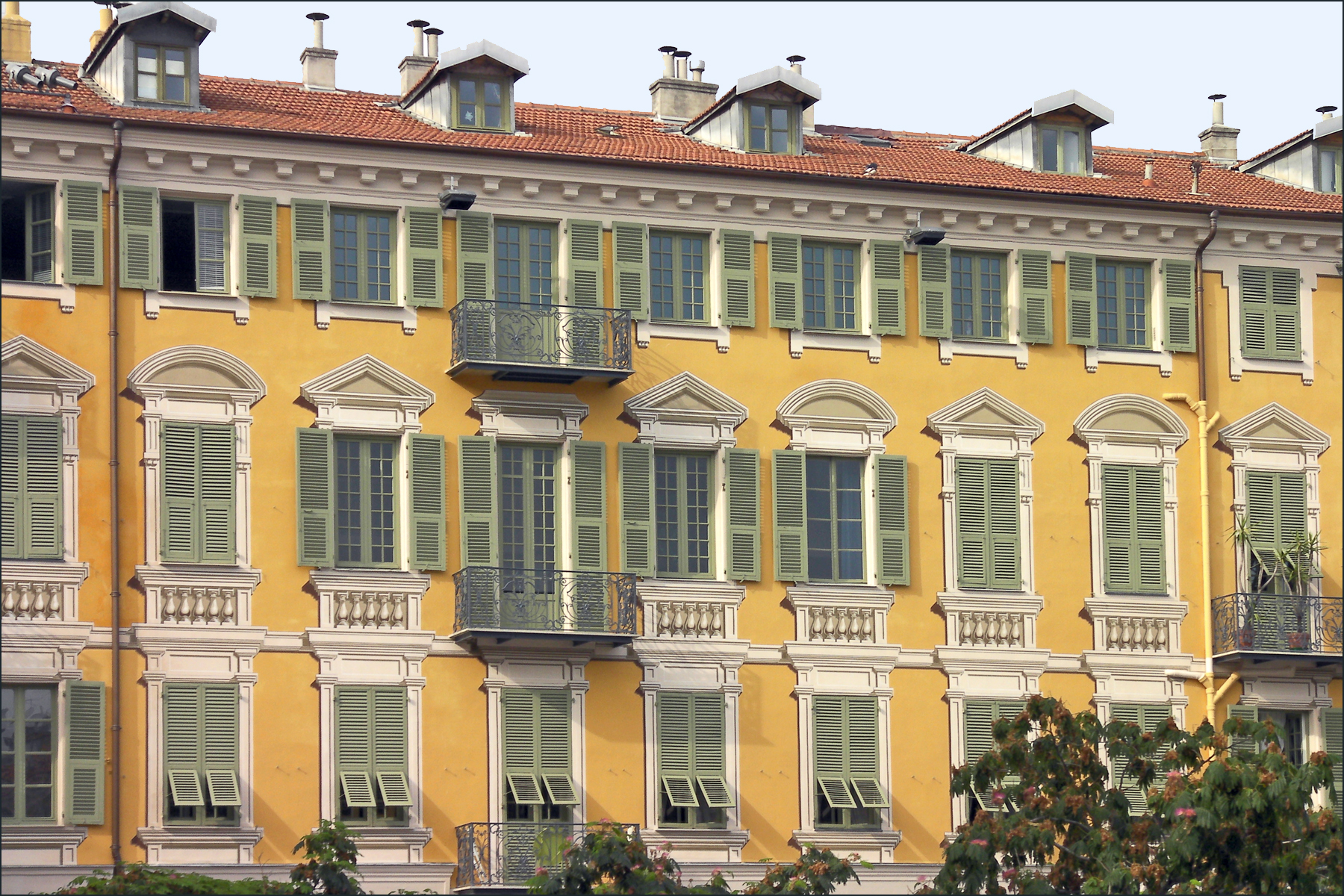 The façades at place Garibaldi in Nice, France, after 2010-2012 updating.